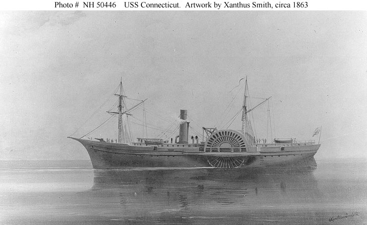 USS Connecticut (1861-1865) Artwork by Xanthus Smith, circa 1863.